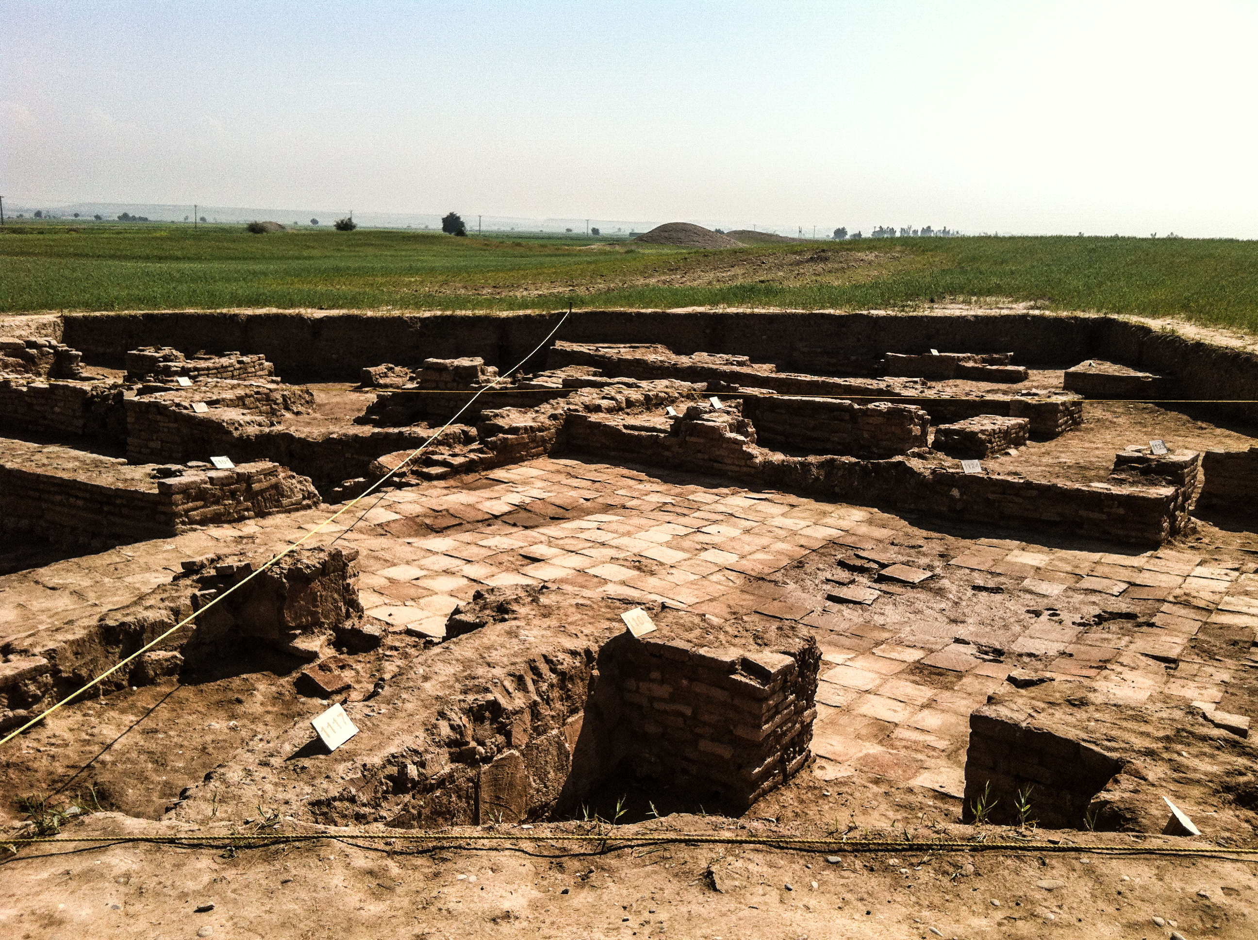 Ancient City of Gandhi Shapour